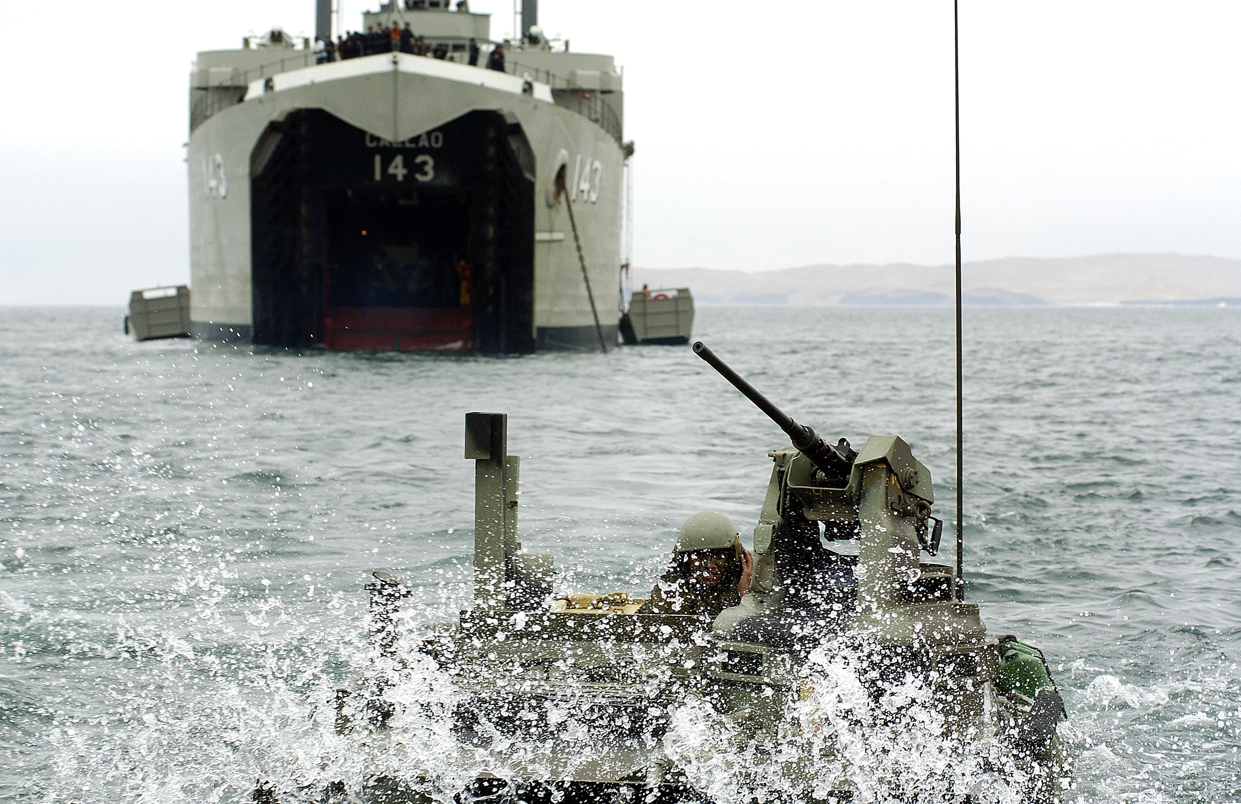 "040704-N-1464F-008 Salinas, Peru (July 4, 2004) - A Peruvian amphibious assault vehicle (AAV) approaches the shore after launching from the Peruvian tank landing ship B.A.P. Callao (DT-143), during the largest amphibious assault exercise in Latin America, UNITAS 45-04. Eleven partner nations from the U.S. and Latin America came together for the largest multilateral exercise in the Southern Hemisphere. Held since 1959, UNITAS aims to unite military forces throughout the Americas with bilateral and multilateral shipboard, amphibious and in-port exercises and operations. UNITAS improves operational readiness and interoperability of U.S. and South American naval, coast guard, and marine forces while promoting friendship, professionalism and understanding among participants. U.S. Navy photo by Chief Journalist Dave Fliesen (Released)"